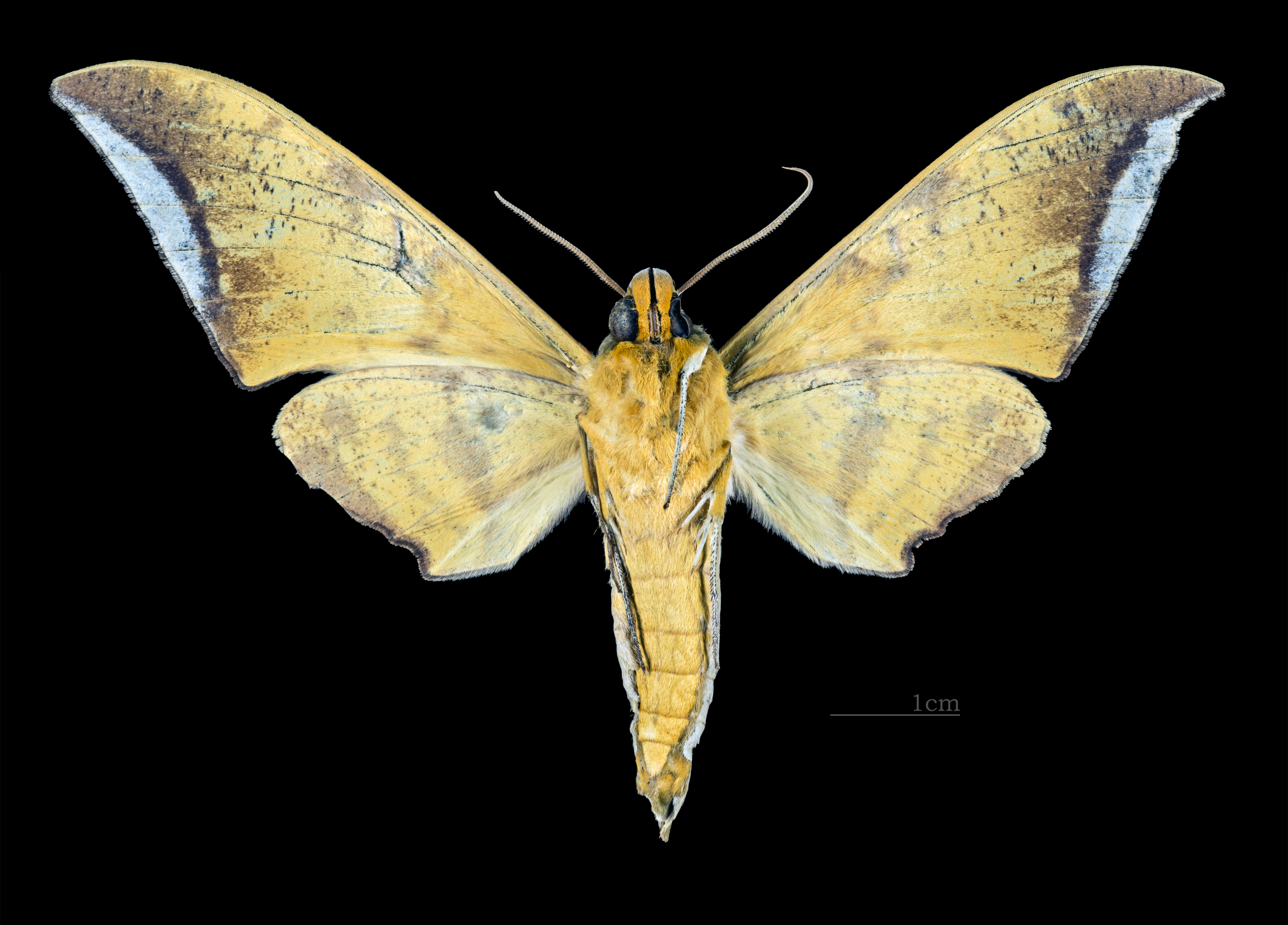 Ambulyx immaculata - △ Ventral side Collection of the Mathematician Laurent Schwartz